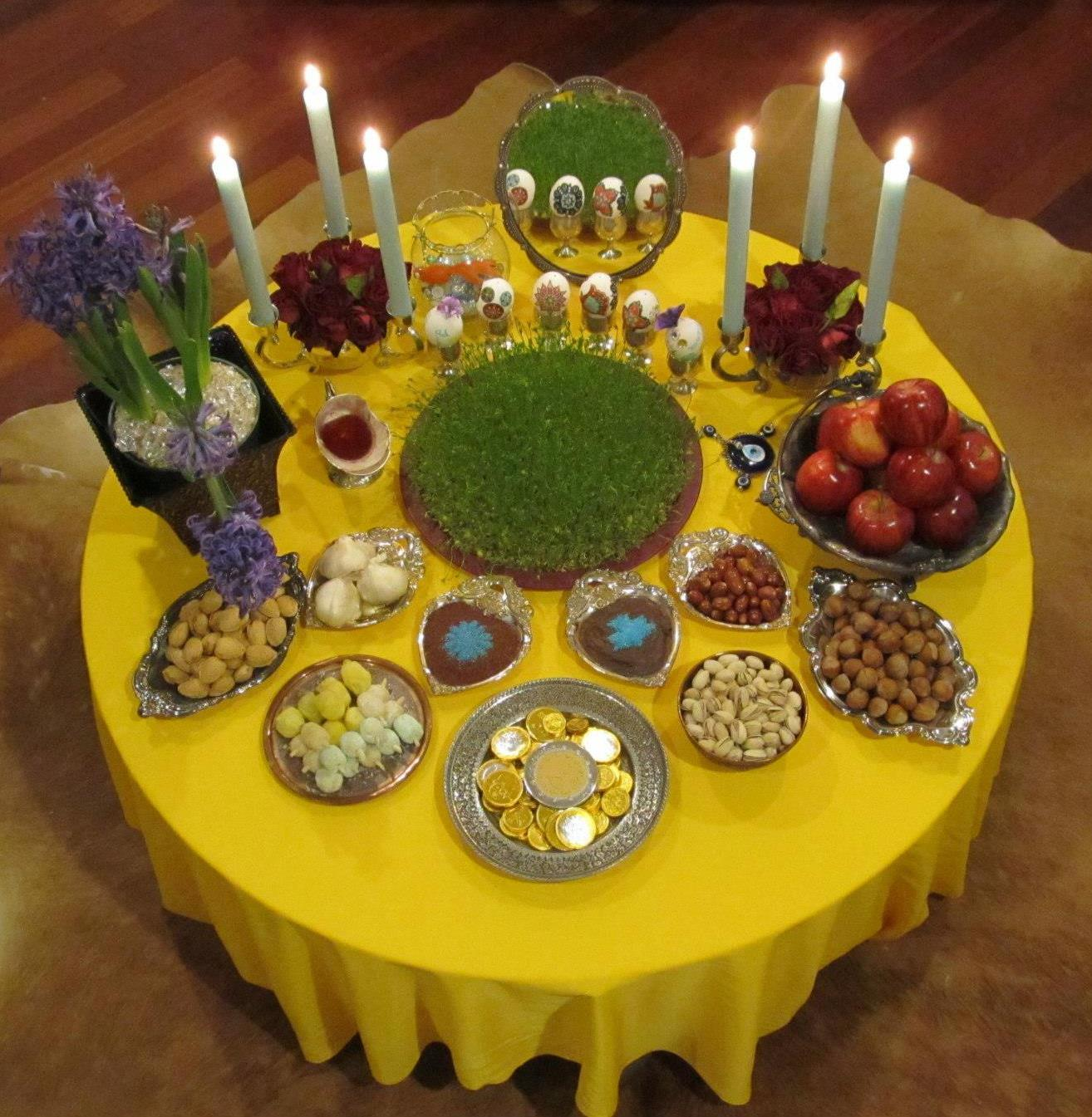 Haft Seen traditional table of Nowrooz